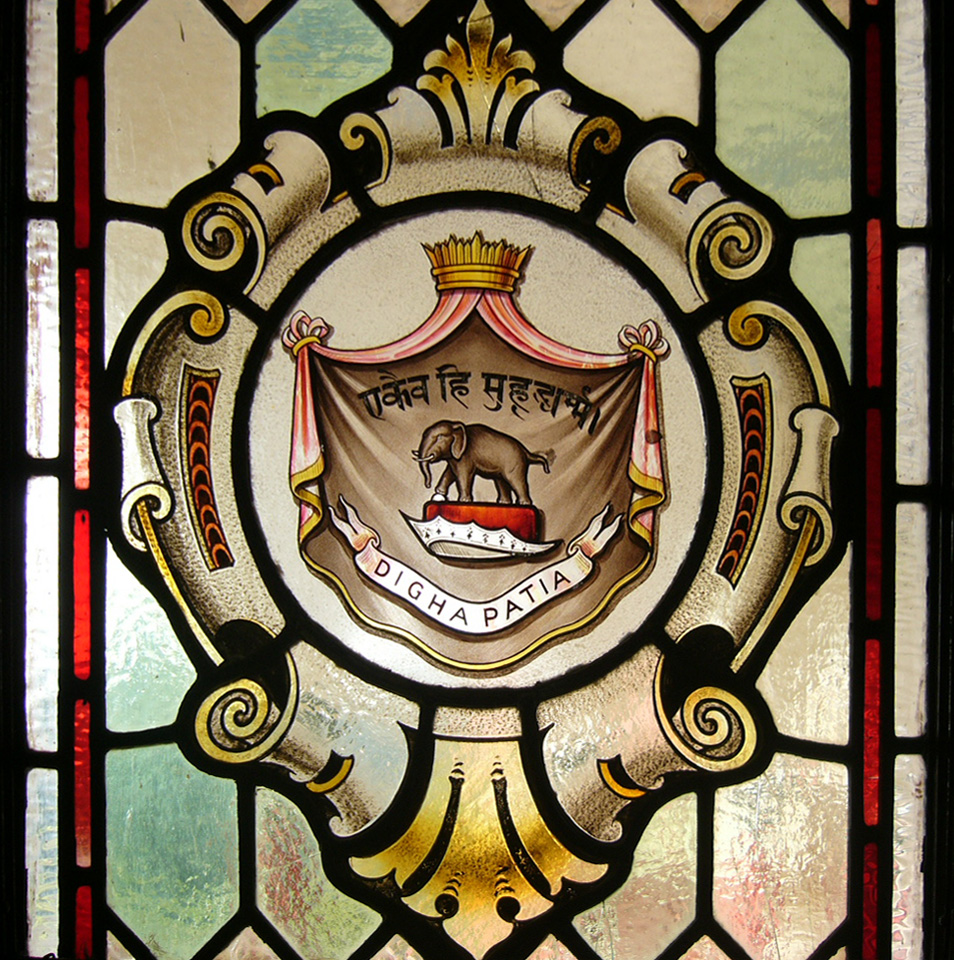 Natore, A District of Bangladesh Authour Shahnoor Habib Munmun